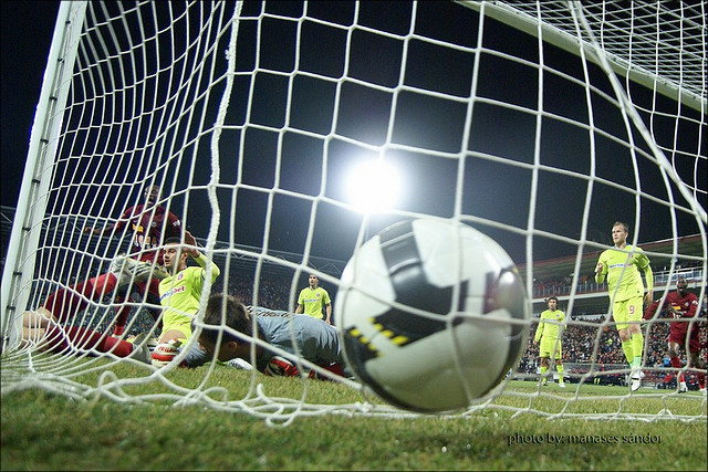 Smanases made this shot with my Sony alpha100 with remote control.The camera was on the back of the net, with a 17-50 tamron lense. f=2.8, ISO 800, shutter on 1/400.